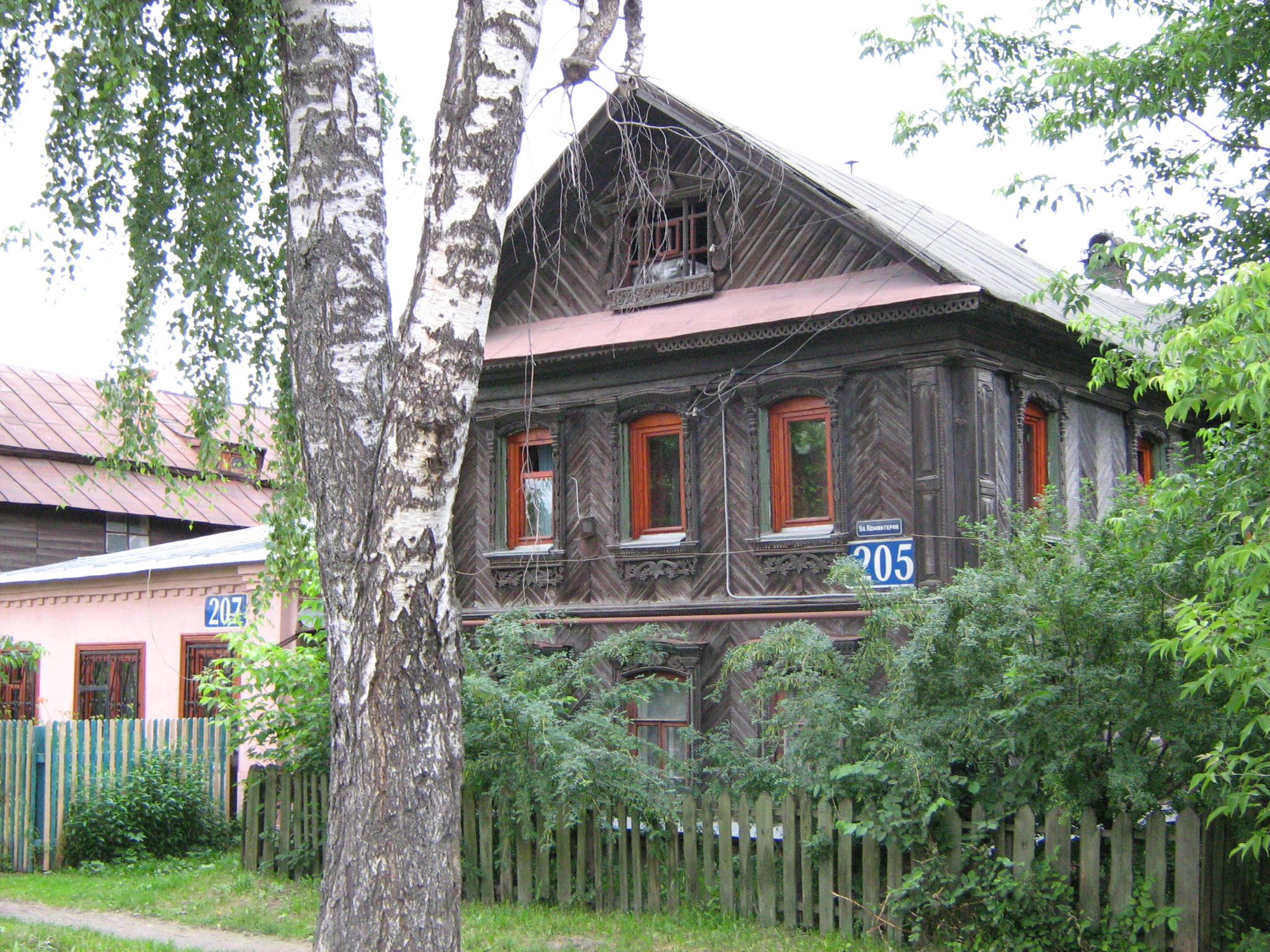 Old wooden houses in central Sormovo, some probably predating Sormovo's amalgamation into Nizhny Novgorod ca. 1930